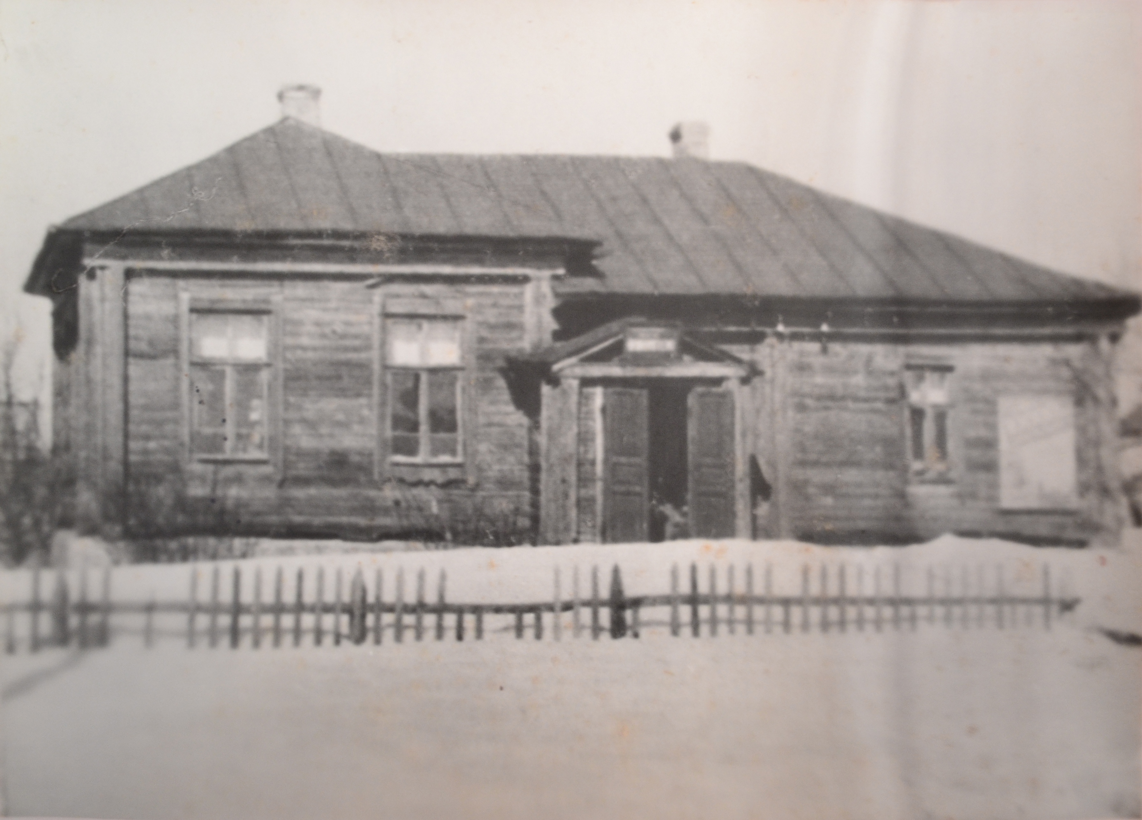 библиотека